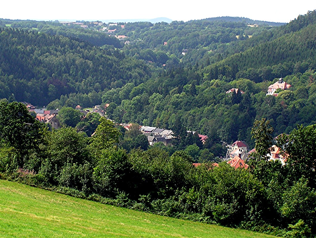 view into the Gottleuba valley near the small town Gottleuba which is part of Bad Gottleuba-Berggiesshuebel Description in de wikipedia: Beschreibung: Blick ins Gottleubatal bei Bad Gottleuba Quelle: Fotografie vom 7. August 2004 mit Olympus Camedia C-750 Ultra-Zoom Fotograf: Gert Hänsel Lizenzstatus: GNU-FDL